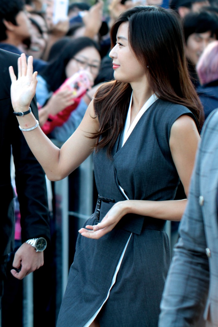 Jun Ji-hyun at Busan International Film Festival, 2012 October 7.